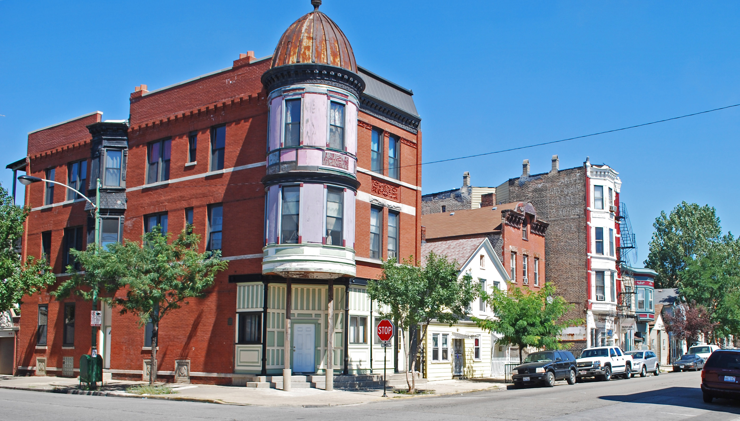 Pilsen Historic District, 21st near Ashland, Chicago IL